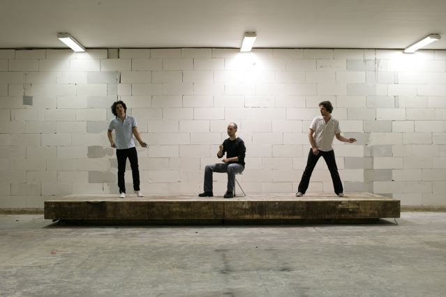 Hifiklub, rock band from Toulon (Provence, Occitania, France).